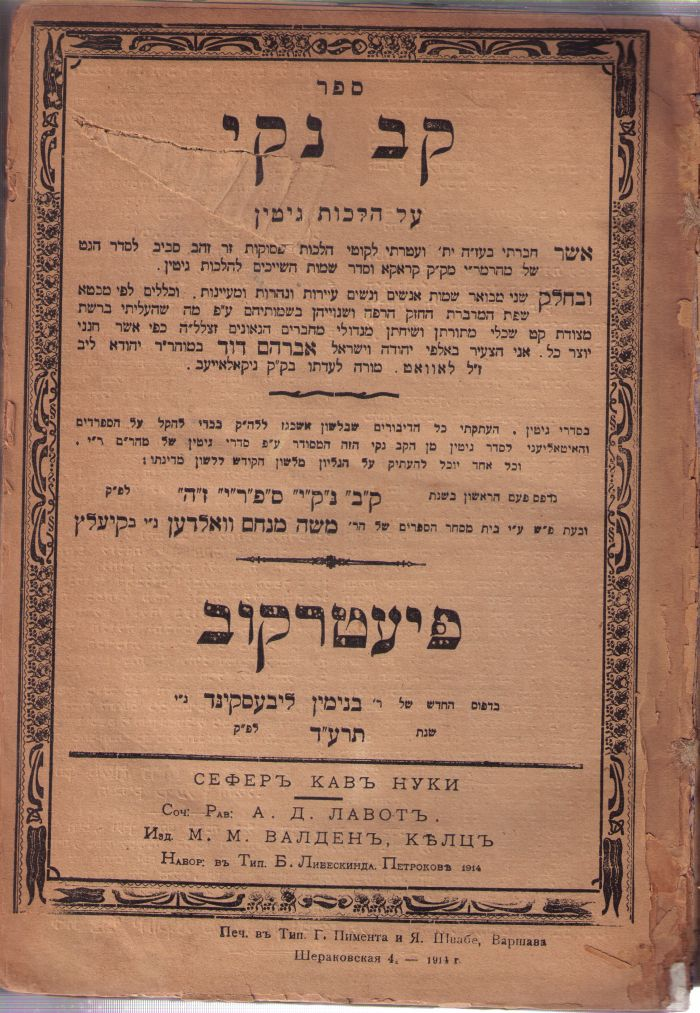 Kav Naki Book by Rabbi Avraham David Lavat, 1914